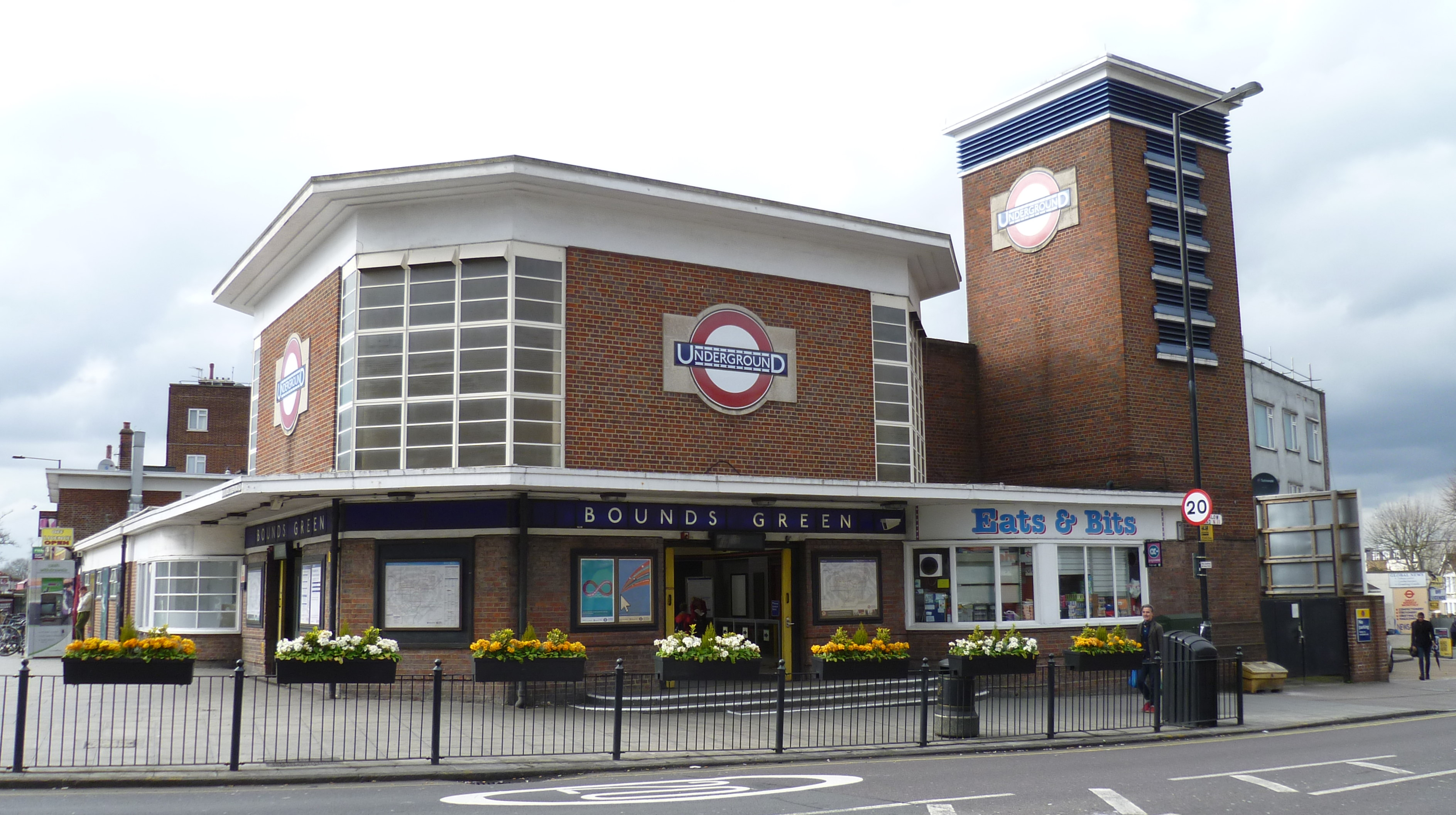 London